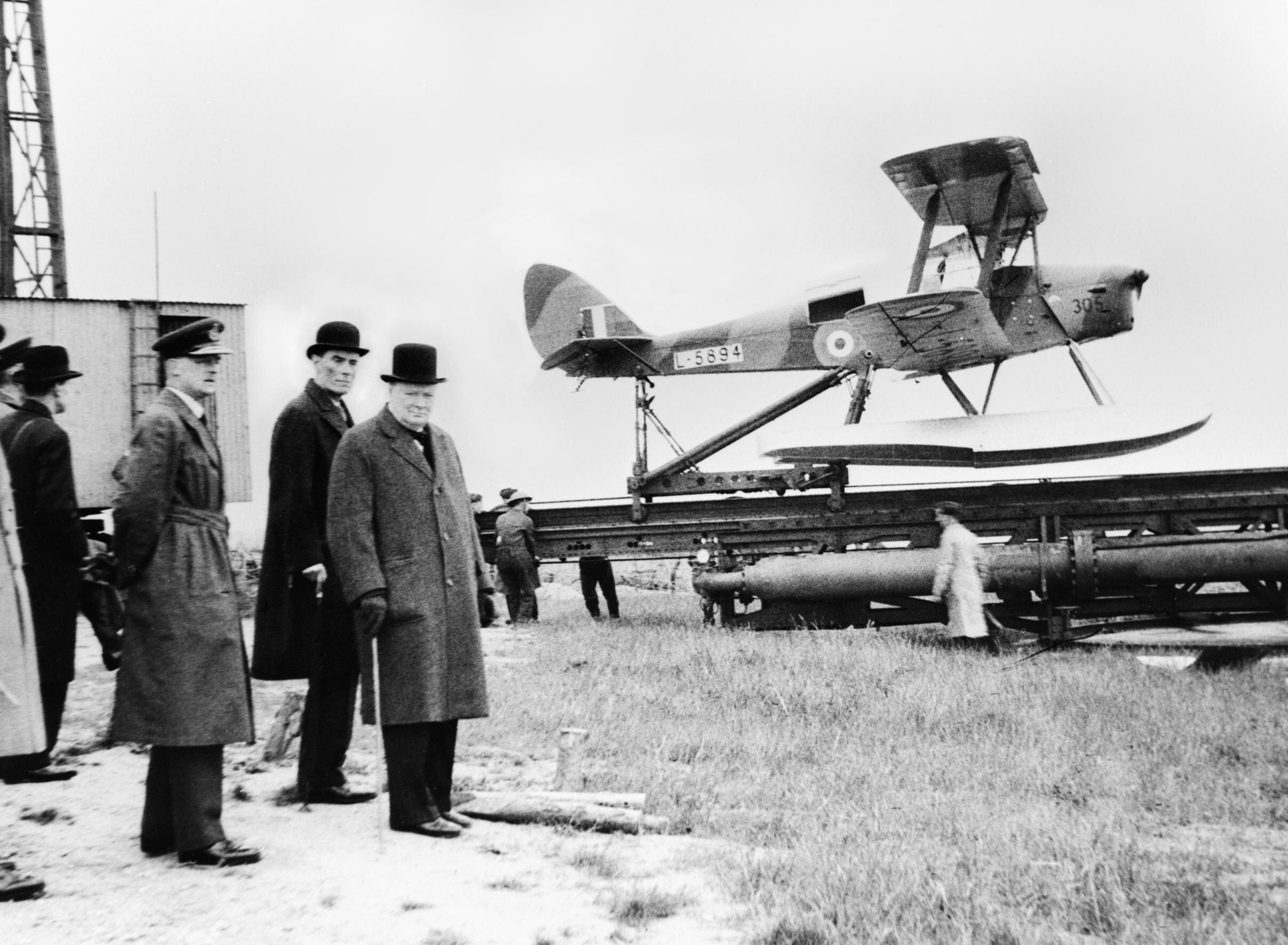 Winston Churchill and the Secretary of State for War waiting to see the launch of a de Havilland Queen Bee radio-controlled target drone, 6 June 1941. The Prime Minister, Mr Winston Churchill, with Captain The Right Honourable David Margesson, Secretary of State for War, watching preparations being made in an unspecified UK location for the launch of a De Havilland Queen Bee seaplane L5984 from its ramp. The Queen Bee pilotless target drone was a radio-controlled version of the Tiger Moth trainer.